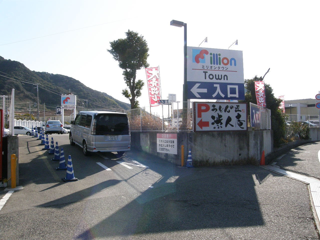 mandai-super-kitasuma